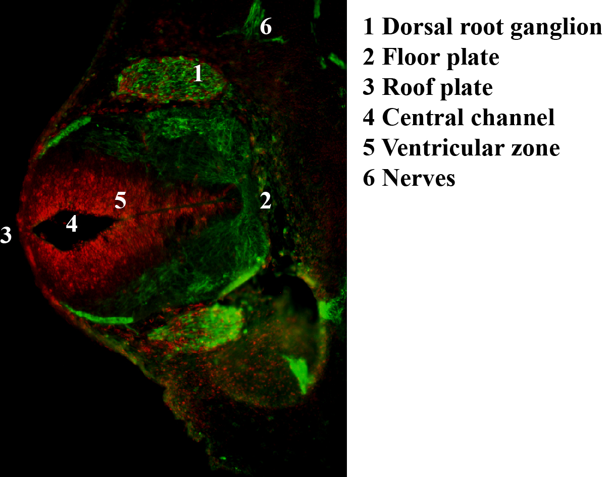 Antibody stain against Neurofilament (green) and Ki 67 (red) in a Mouse embryo at day 12.5 after fertilization. Shown is the dorsal root ganglion (green ellipsoid regions where cells express neurofilament) and the ventricular zone (red region where cells proliferate) as well as the neural tube with roof and floor plate.